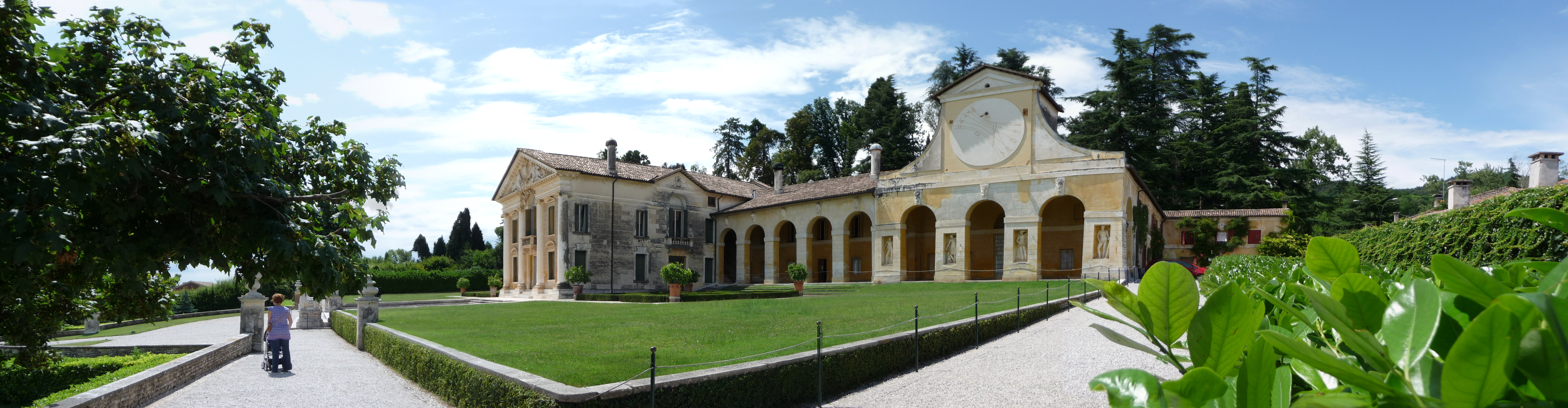 Villa Barbaro in Maser, province of Treviso, Italy, built by Andrea Palladio between 1554 and 1560 for the brothers Daniele and Marcantonio Barbaro. Panoramic view from the front garden, right corner (composing 4 photos).